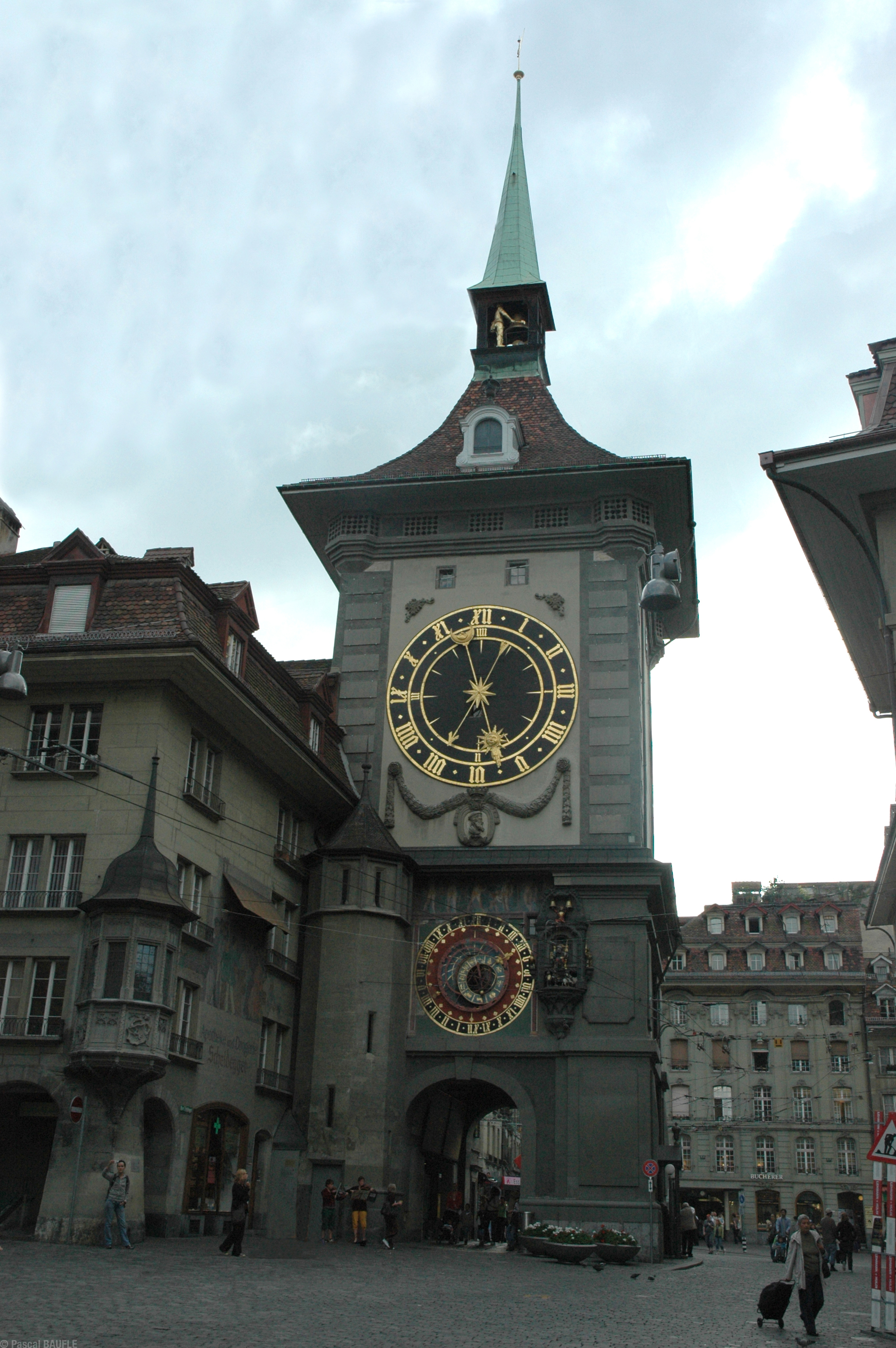 La Tour de l'Horloge à Berne "Zeitglockenturm" en allemand ou "Zytglogge" en Bernertütsch